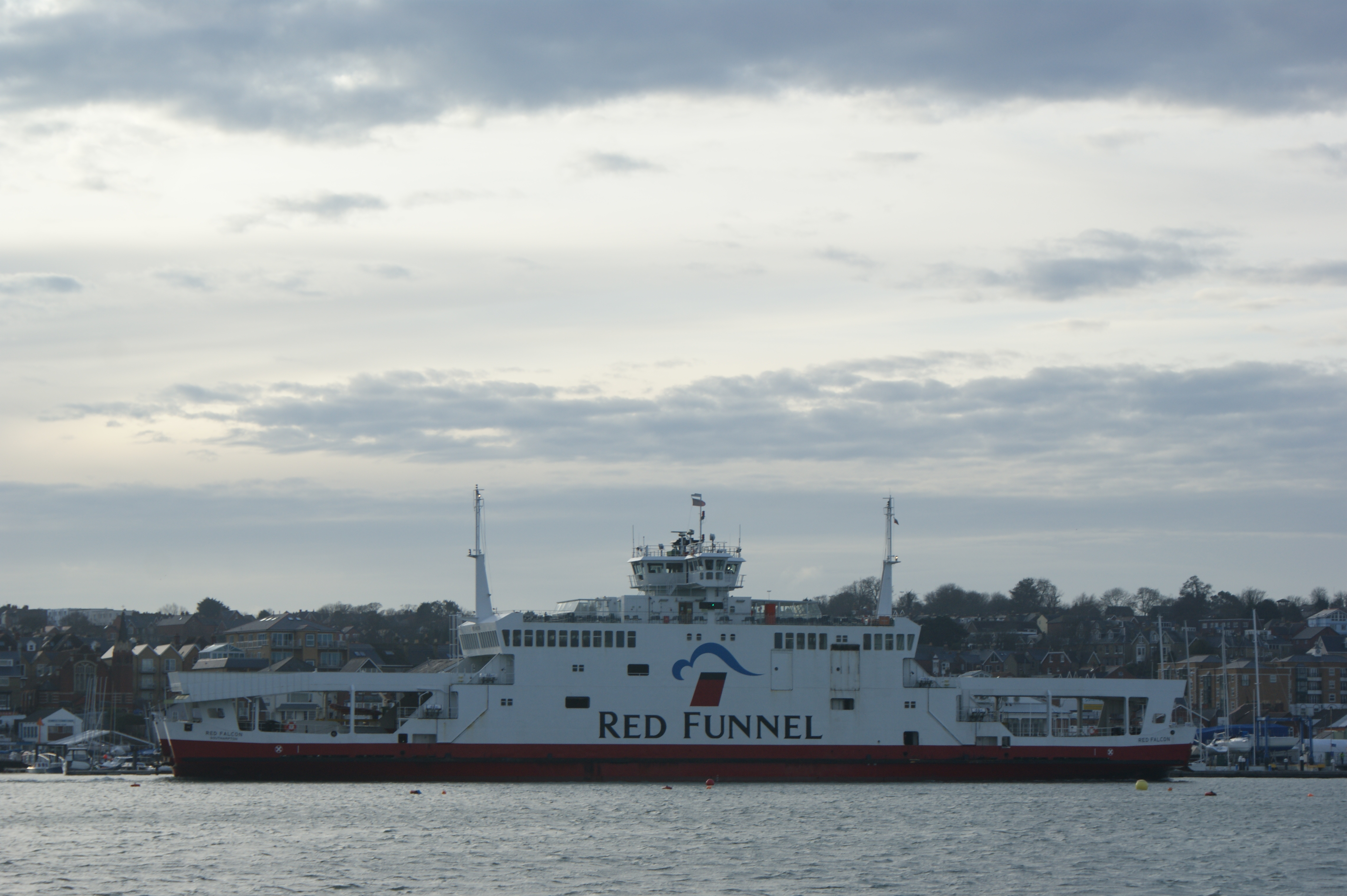 The Red Falcon ferry in Cowes. IMO Number: 9064047 MMSI Number: 235014365 Callsign: MSJF3 Length: 94 m Beam: 18 m